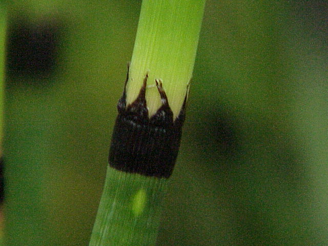 Species: Equisetum hyemale Family: Equisetaceae Image No. 2